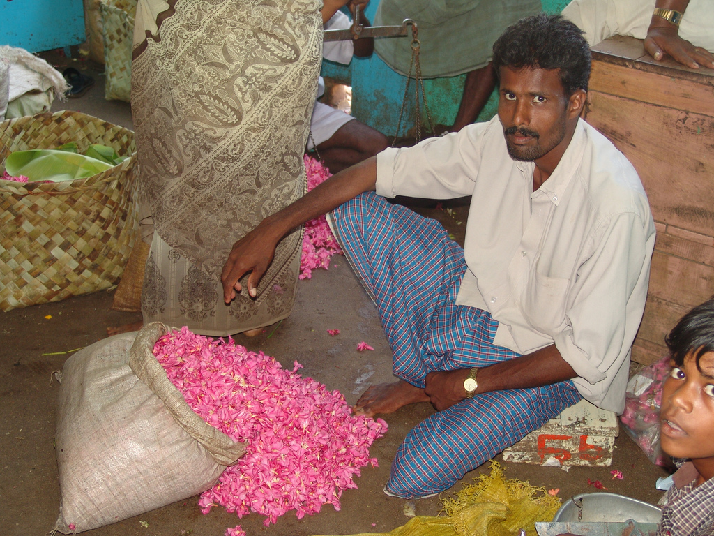 A flower vendor in the marketplace at Madurai, Tamil Nadu, India.